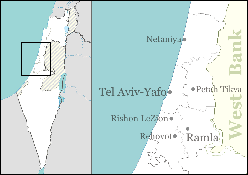 Center and Tel Aviv districts of Israel for pushpin maps.